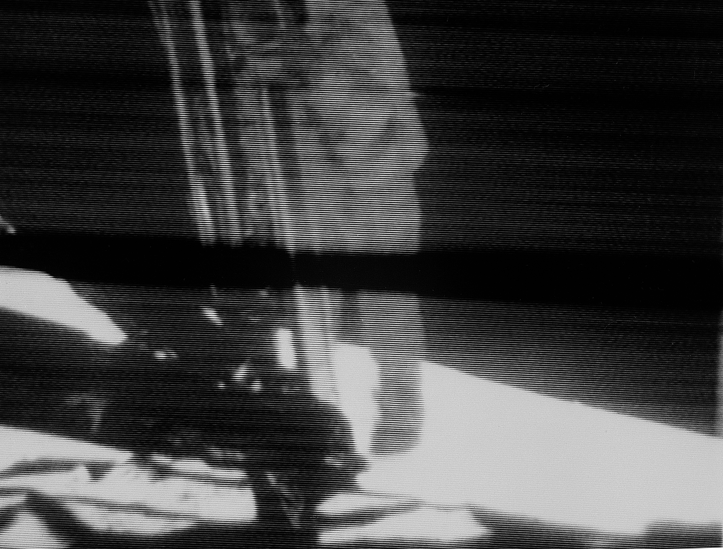 Astronaut Neil A. Armstrong, Apollo 11 commander, descends the ladder of the Apollo 11 Lunar Module (LM) prior to making the first step by man on another celestial body. This view is a black and white reproduction taken from a telecast by the Apollo 11 lunar surface camera during extravehicular activity (EVA). The black bar running through the center of the picture is an anomaly in the television ground data system at the Goldstone Tracking Station. Slow scan TV monitor at Goldstone. Polaroid, mounted camera – black bar produced by incorrect camera shutter speed [1].